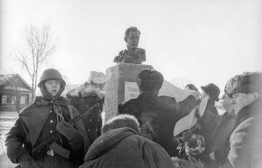 The opening of a bronze bust of the Hero of Socialist Labor Mikhail Ilyich Koshkin in Brynchagi village. Left behind the monument stays Colonel-General Sergey Aleksandrovich Maev (the head of the Main Tank-Automotive Department of Russian Ministry of Defence, later chairman of the central council of DOSAAF — Russian Volunteer Society for Cooperation with the Army, Aviation, and Fleet), in front of the monument stays Gennady Stepanovich Bykov (Deputy Governor of the Yaroslavl Region), more to the right stays Khasanbi Safarbievich Shoparov (the head of Pereslavl district), and the lady with a hat — Tatyana Mikhailovna Koshkina (the hero's daughter).